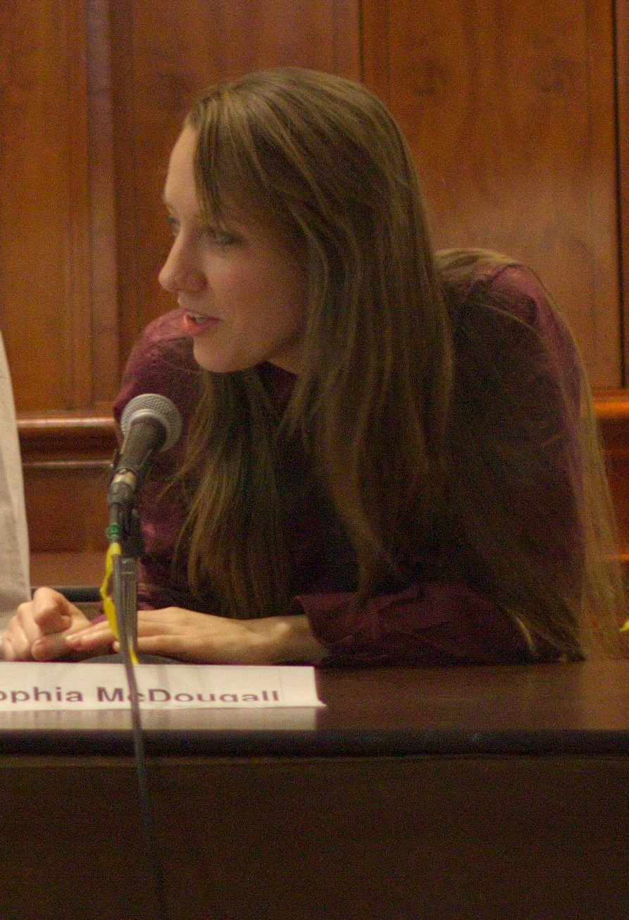 Sophia McDougall at Eastercon Olympus 2012 (cropped from another photo)